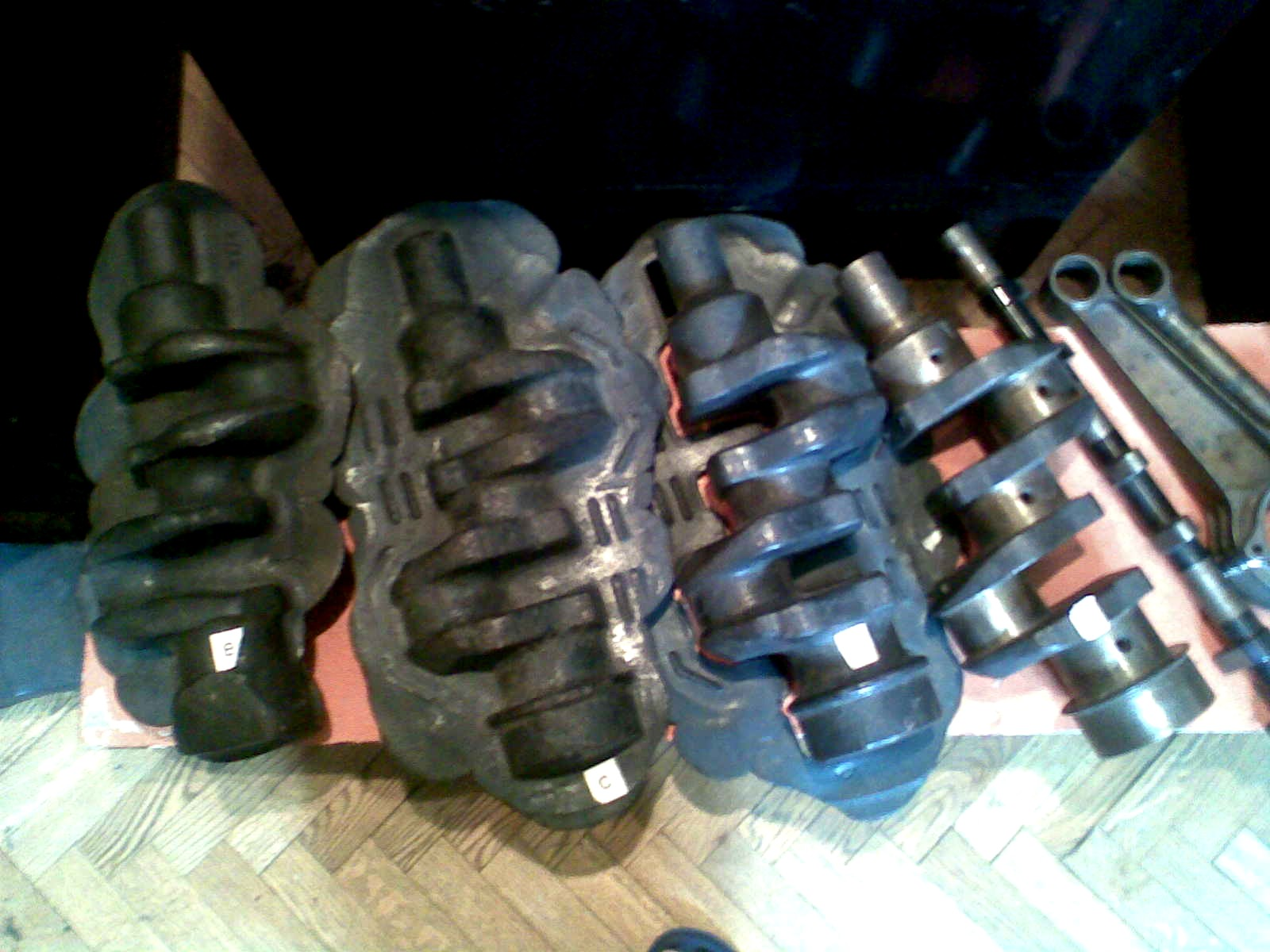 Phases of production of a crankshaft with use of a drop forging hammer MPM 1000. Picture taken in Warsaw Museum of Technology (Muzeum Techniki). From left to right: First forging Second forging Result of forging After machining